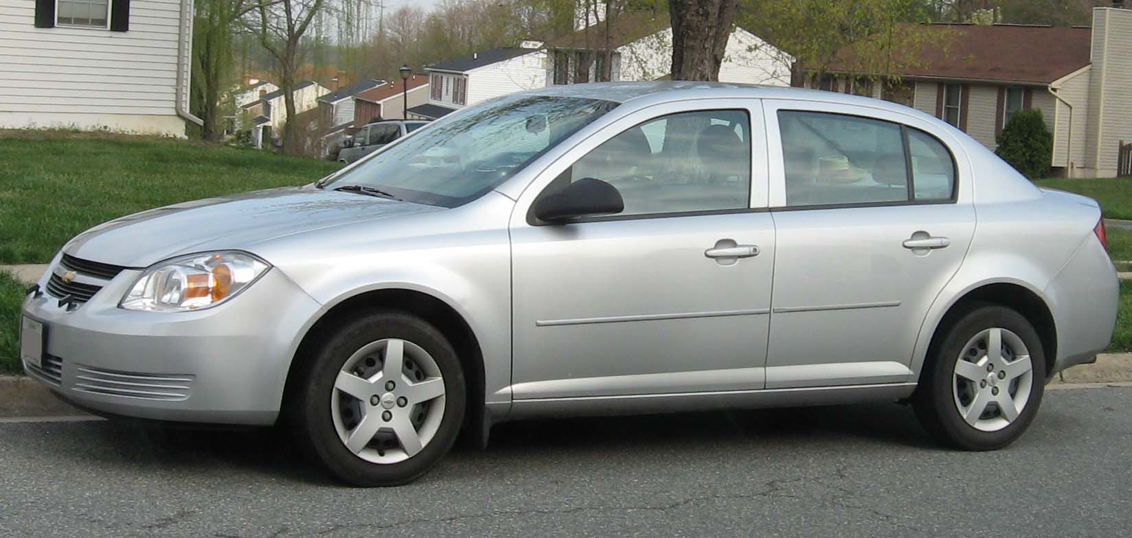 2005-2007 Chevrolet Cobalt photographed in USA.